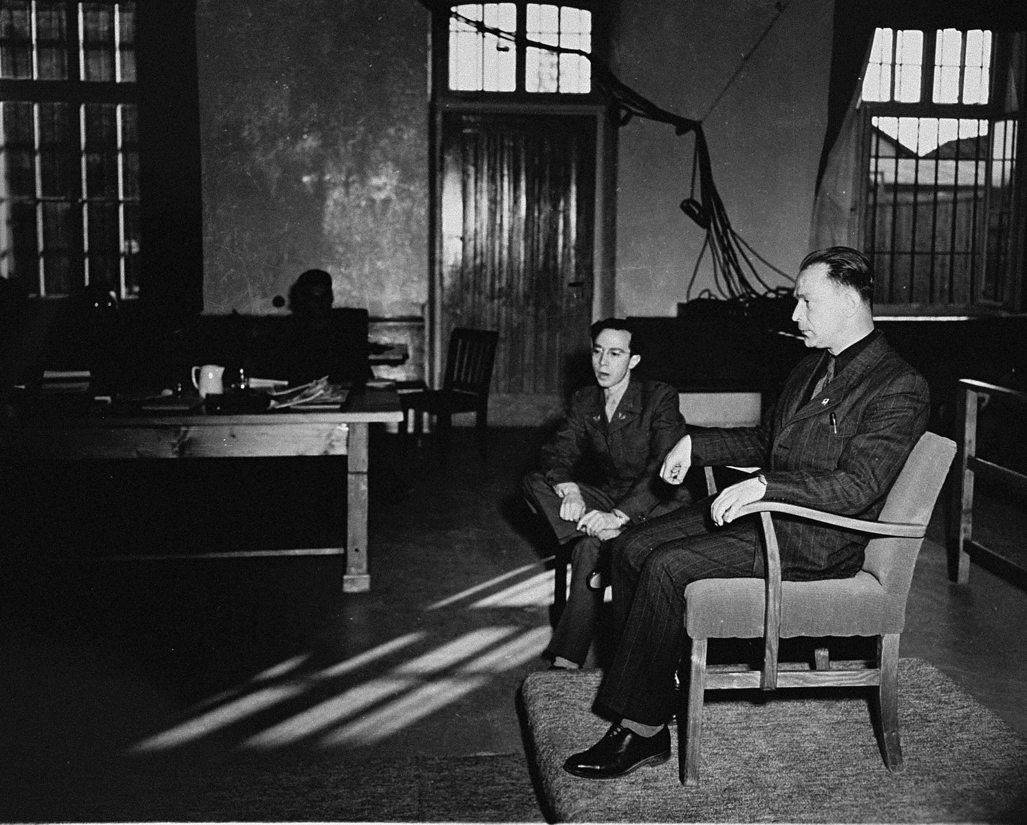 Dr. A. (Toni) Goscinski, a former political prisoner at Gusen who served as a doctor in the camp, testifies at the trial of 61 former camp personnel and prisoners from Mauthausen.